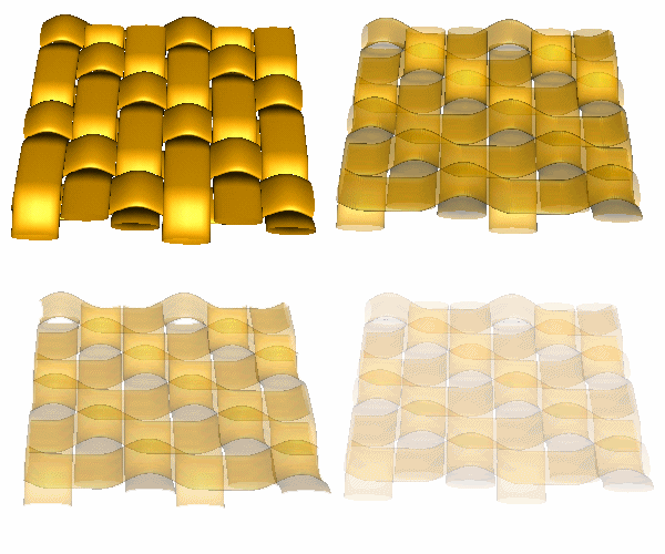 Example of transparency parameter